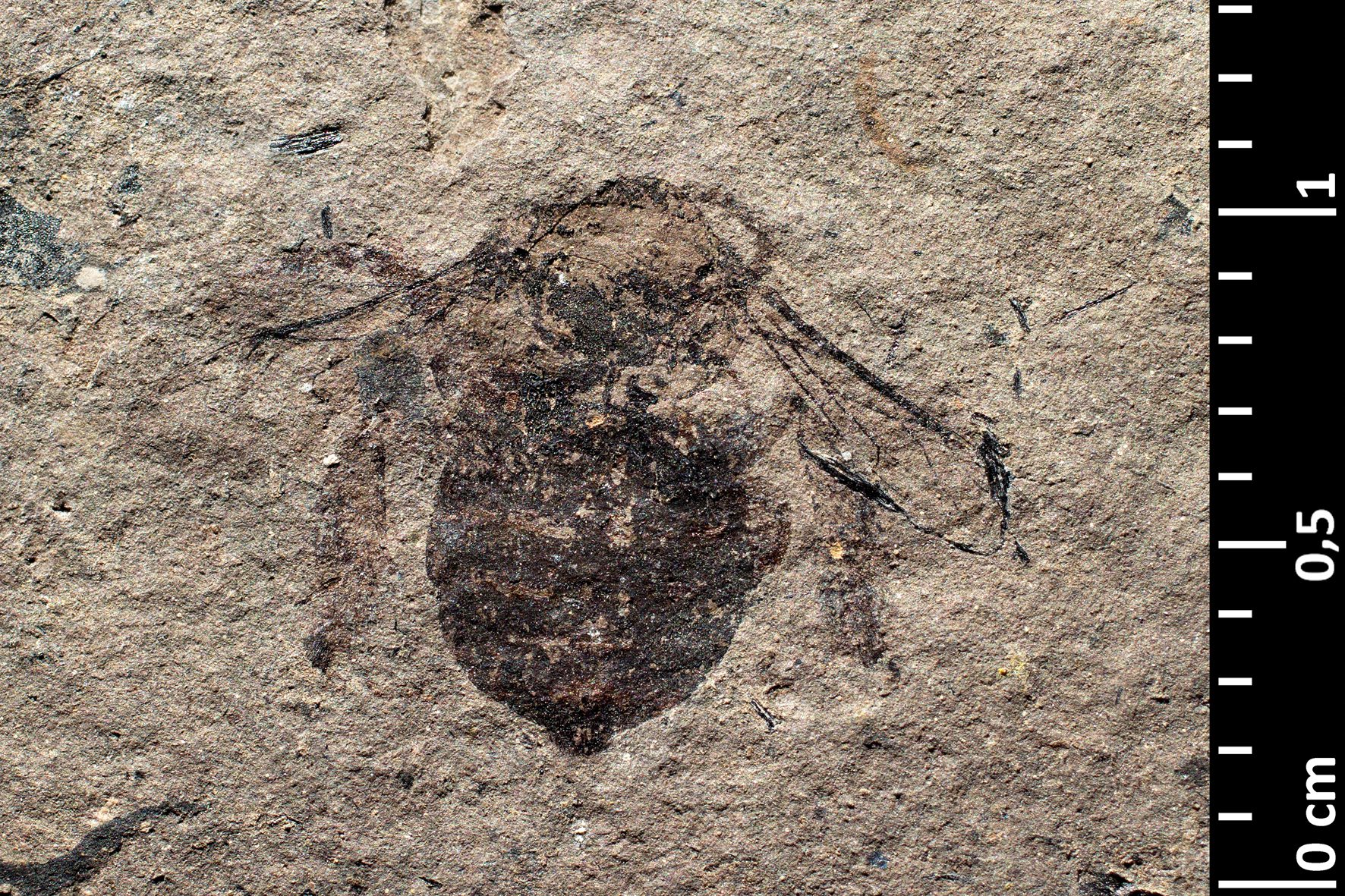 The Paleohabropoda oudardi holotype specimen with direct lighting. Thanetian, Paleocene; Menat Formation, Menat Basin, Puy-de-Dôme, France Muséum national d'Histoire naturelle specimen MNHN.F.R63891